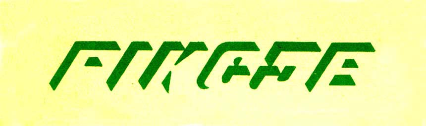 SF-fanzine from Katowice (of the 1980's)